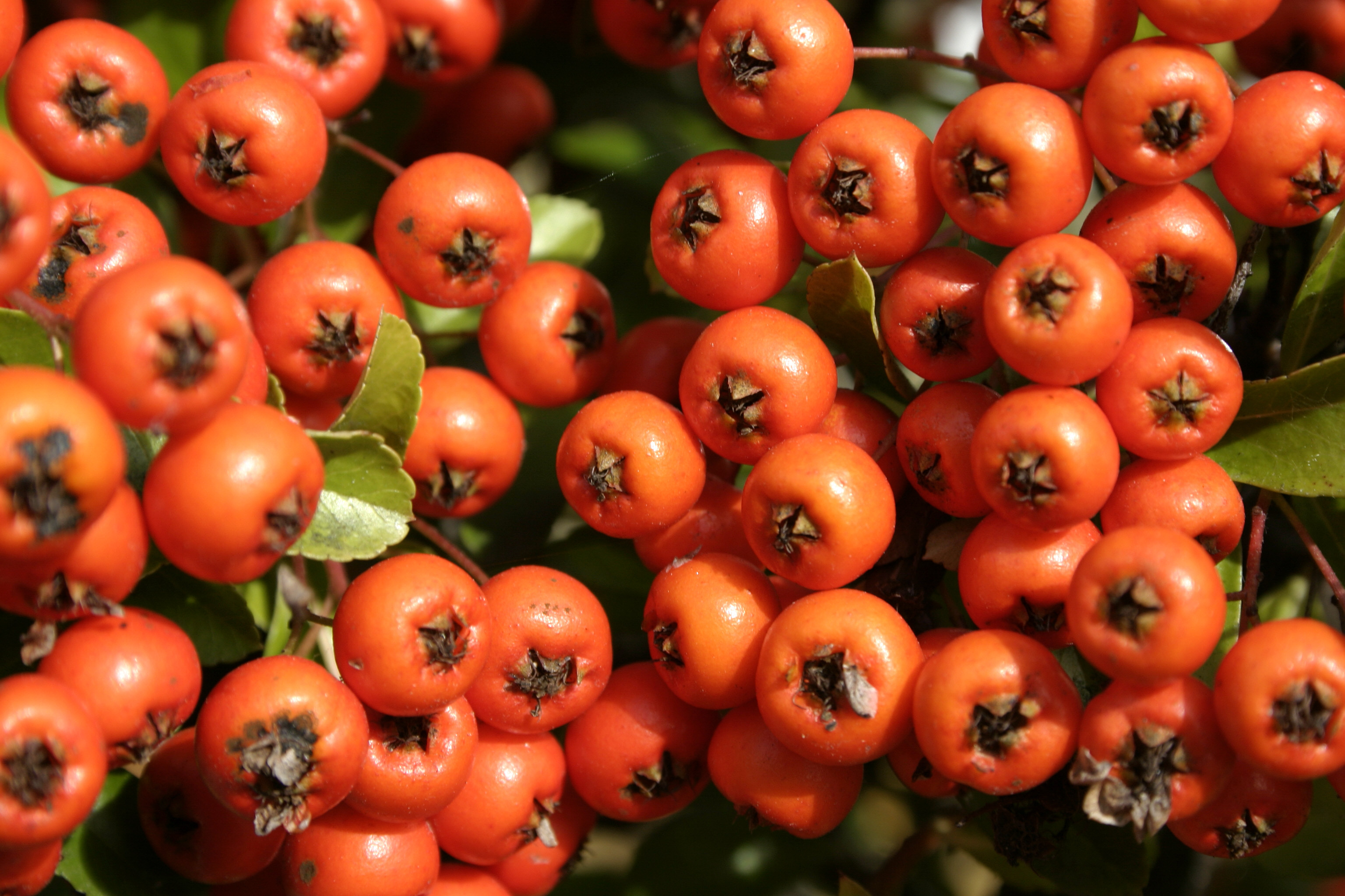 pyracantha sp